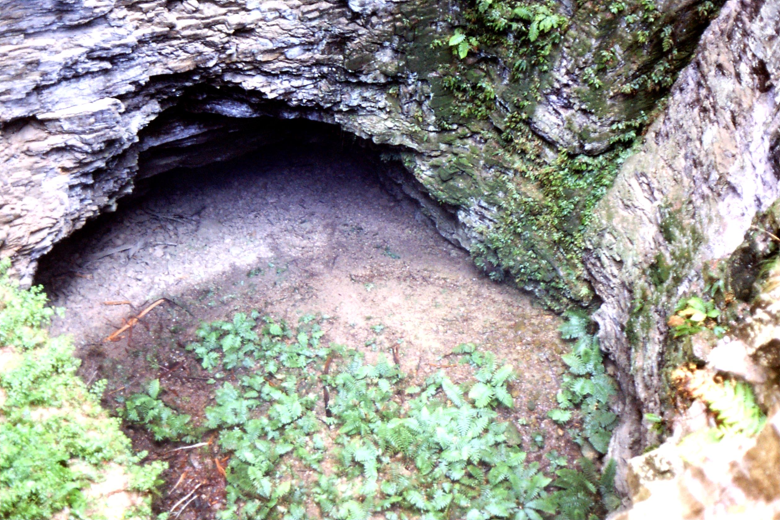 The Big Hole, Deua National Park, 1995